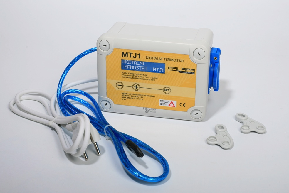 electronic digital thermostat